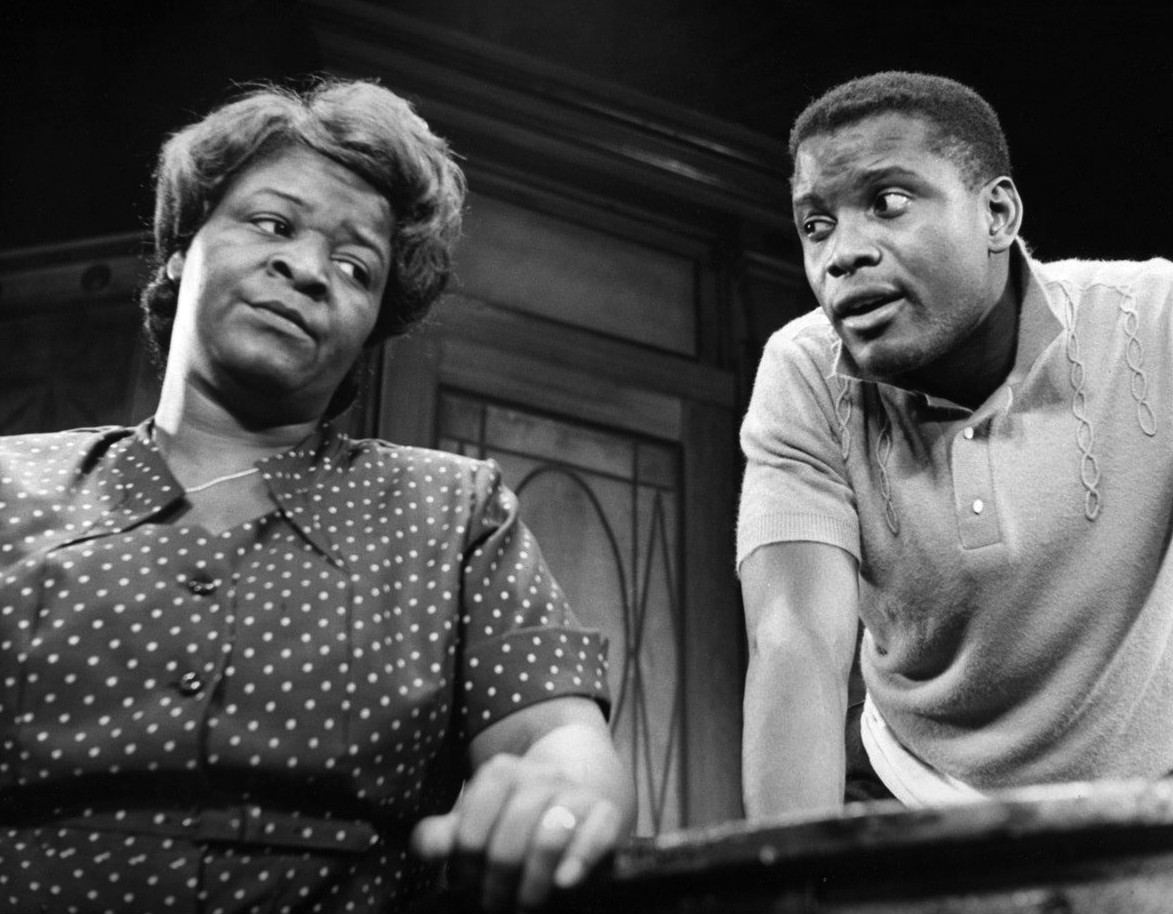 Photo of a scene from the play A Raisin in the Sun. Pictured are Claudia McNeil (Lena Younger) and Sidney Poitier (Walter Younger).